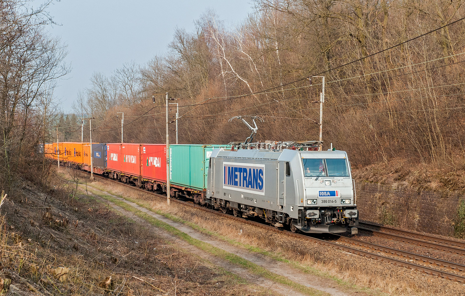 Multi-system electric locomotive no. 386.014 from the TRAXX family (owner Metrans) with container train on track near Polepy, Czech Republic.